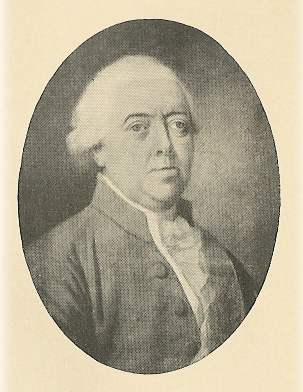 Baron Frederik Christian Rosenkrantz